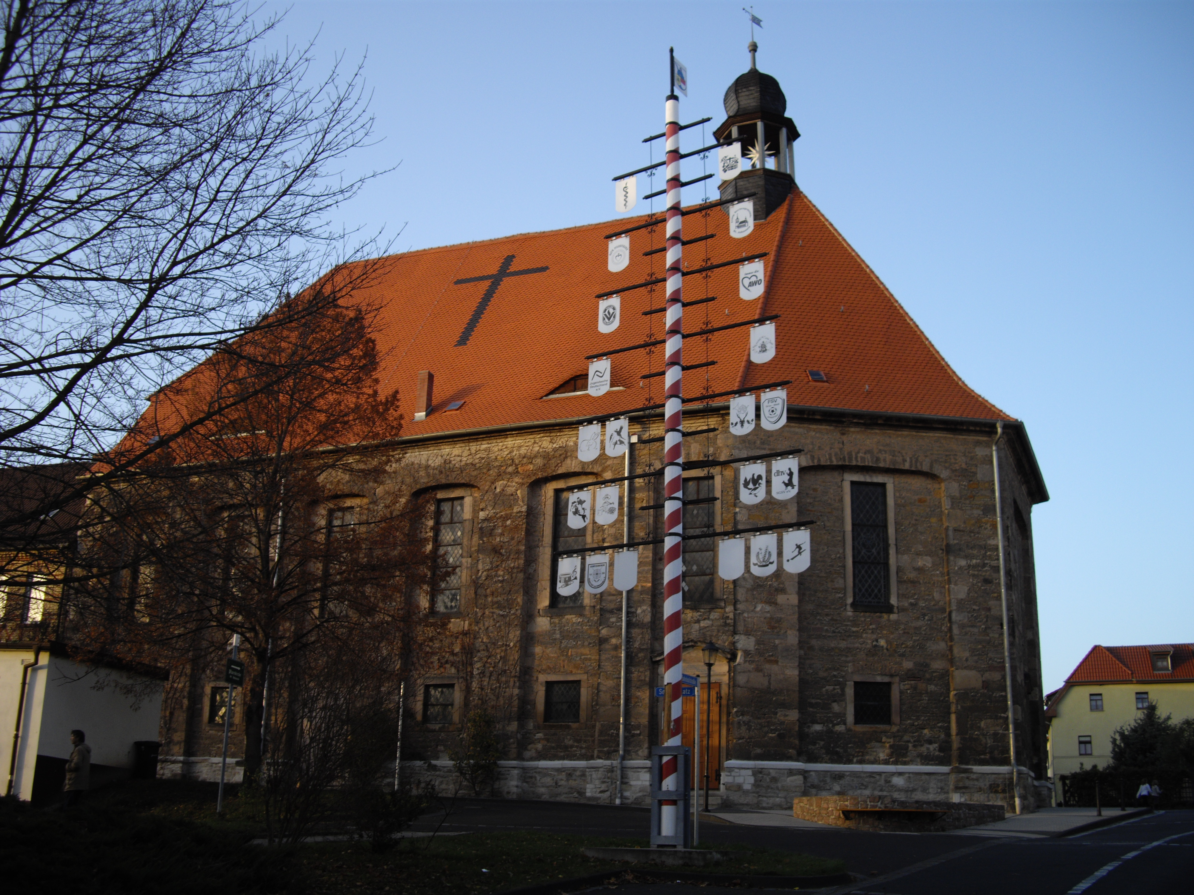 the church St. Johannes in Gerbstedt (Germany)